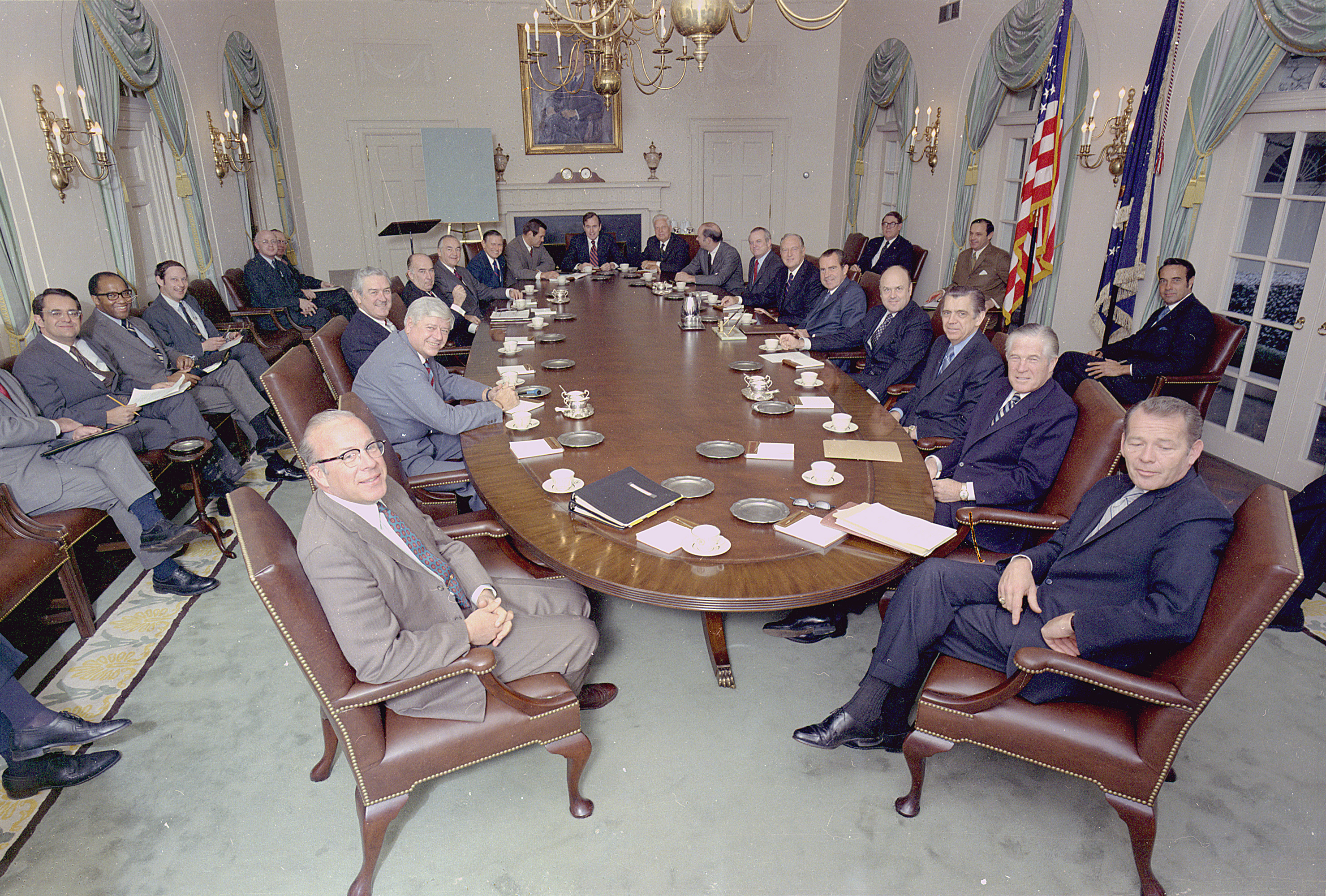 Scope and content: Subject: Cabinet - Individual and Group.